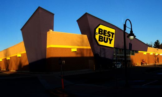 Best Buy store at Pinetree Village in Coquitlam. Image is cropped.